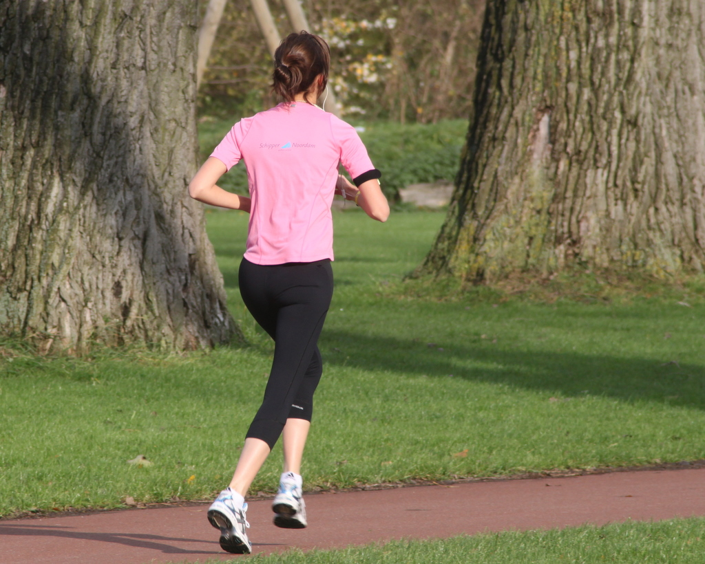 Running woman